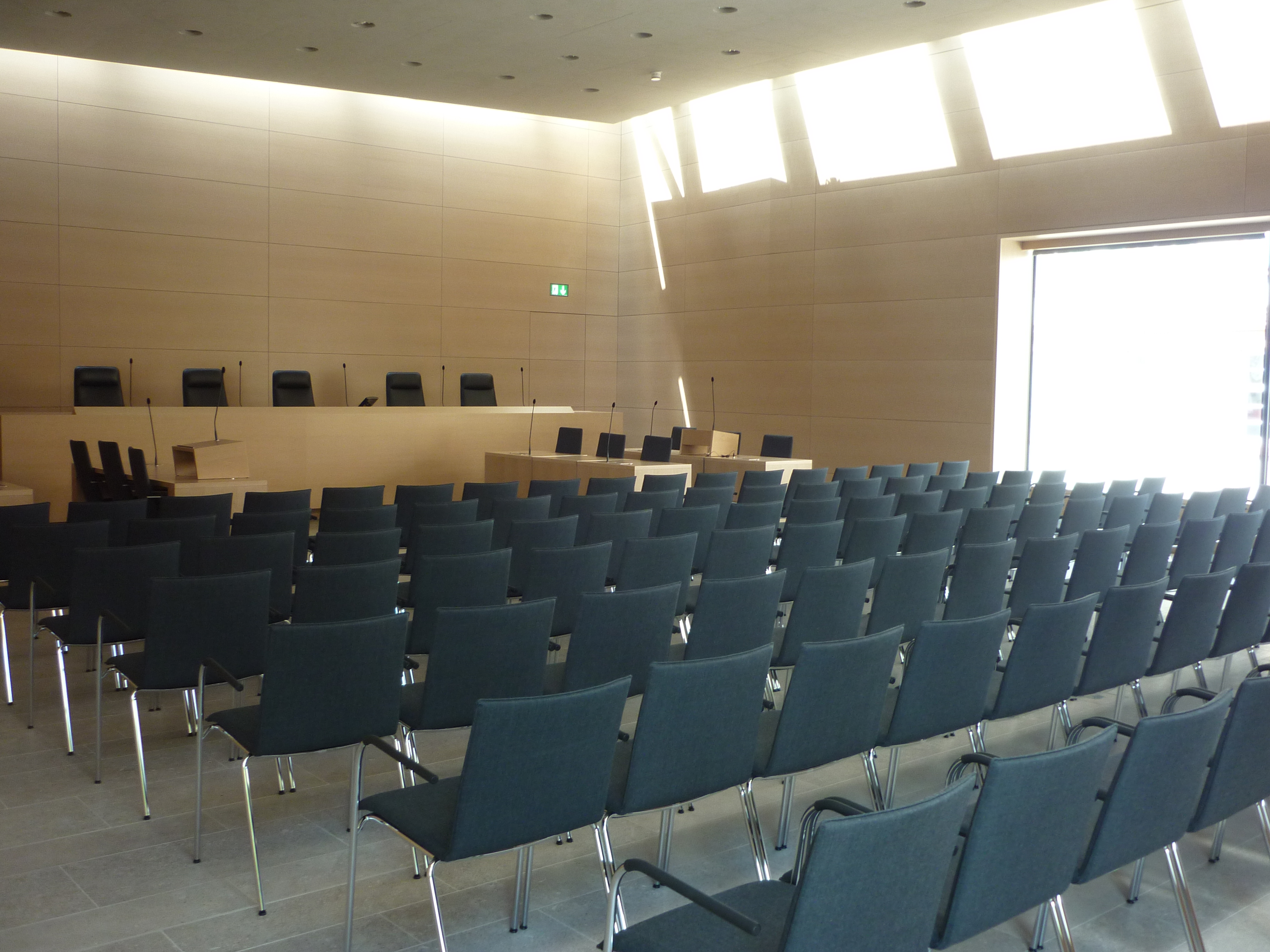 Courtroom for criminal cases on the upper floor of the new entrance building of the Federal Court of Justice of Germany, opened in 2012, Karlsruhe